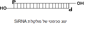 Structure of SiRNA